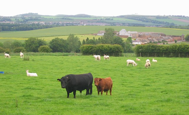 Dexter cattle , Bolton. The Dexter is the smallest breed of cattle. Grazing with sheep overlooking the village of Bolton.